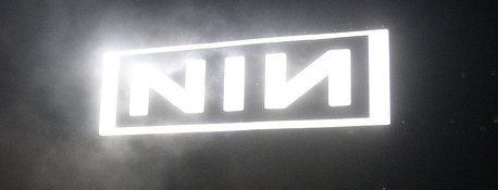 Light display during a Nine Inch Nails live performance